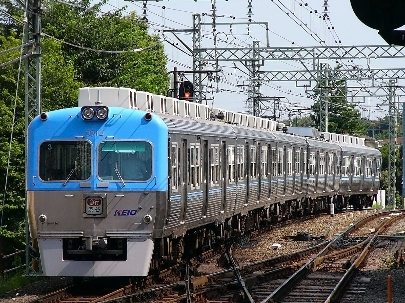 A Keio 3000 series EMU leaving Kichijoji Station on the Keio Inokashira Line